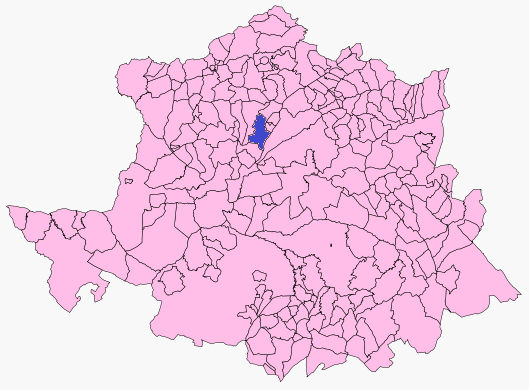 Galisteo